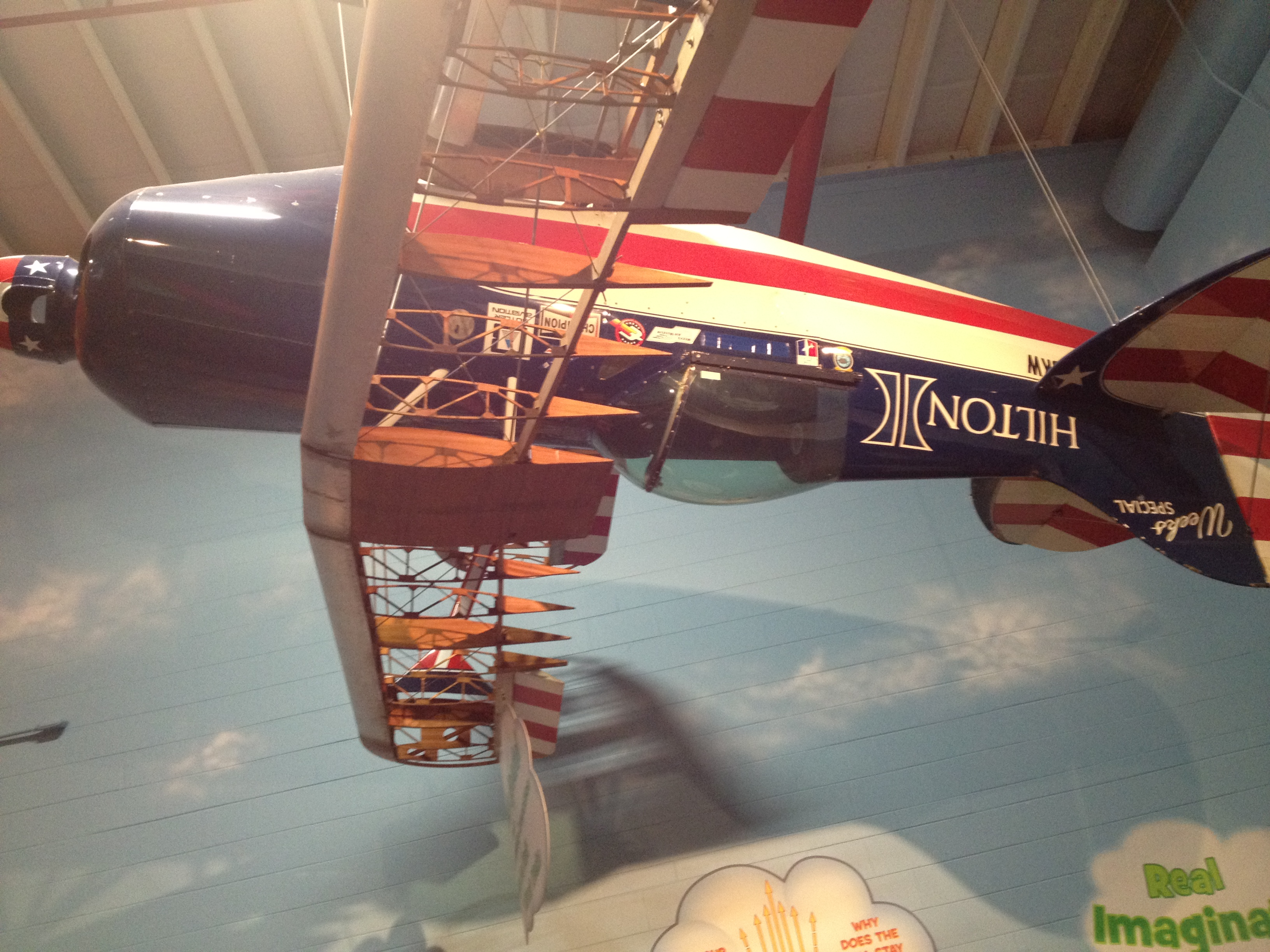 Kermit Weeks' "self-designed" and self-built aerobatic biplane, the Weeks S-1W Special (N69KW). Currently on display at Fantasy of Flight in Polk City, FL.